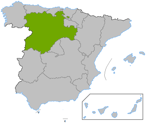 Location of Castile and Leon, in Spain. Basado en: ProvPont.jpg Source: Designed by Satesclop. Original picture, designed by Sobreira.